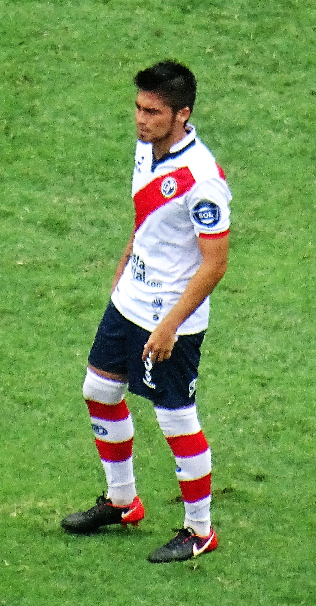 Rodrigo Cuba (Lima, 1992) Peruvian footballer. National Stadium, Peru 2018